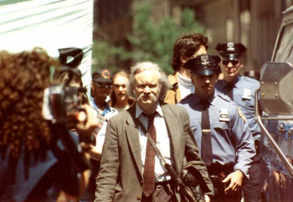 Dana Beal marches at the head of the New York City Marijuana March in 1994. This was before the Global Marijuana March began in 1999.